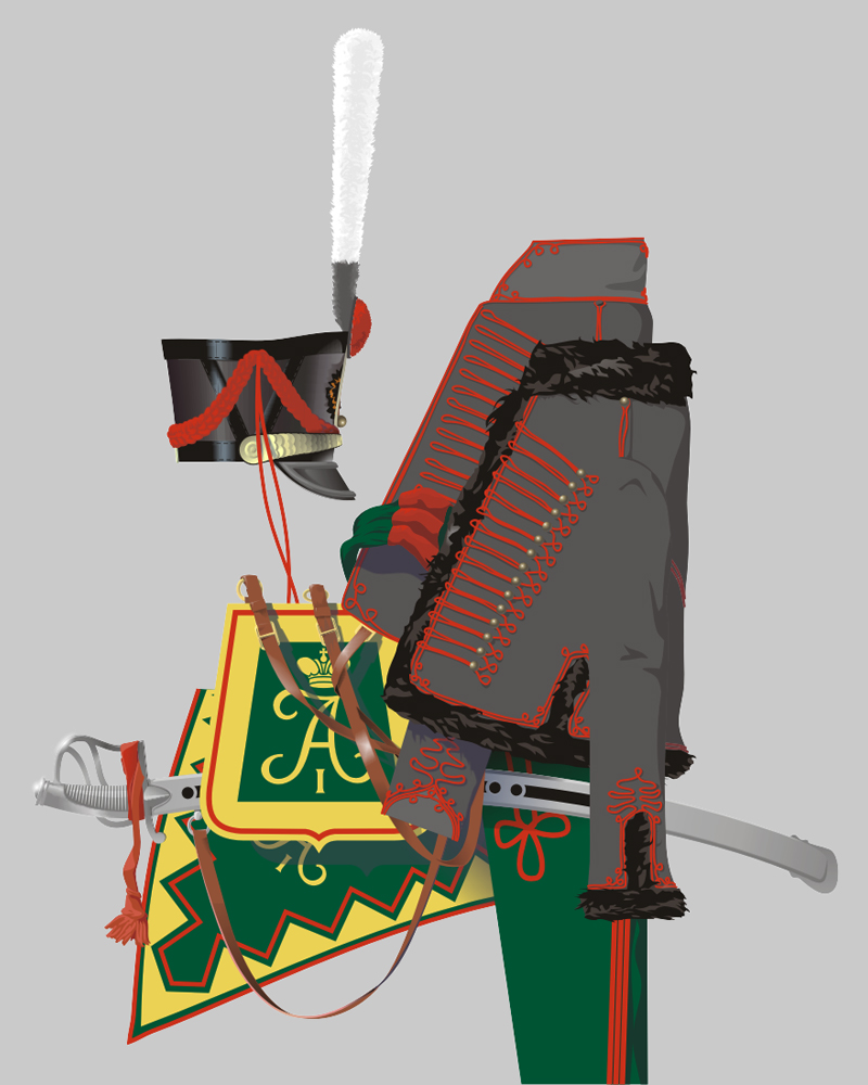 Trooper of Elizabethgrad (Yelizavetgrad) Hussar regiment’s full dress: dolman, pelisse, barrel sash, breeches, shako (here of 1813), shabraque, sabretache & sabre. Russian army of 1812